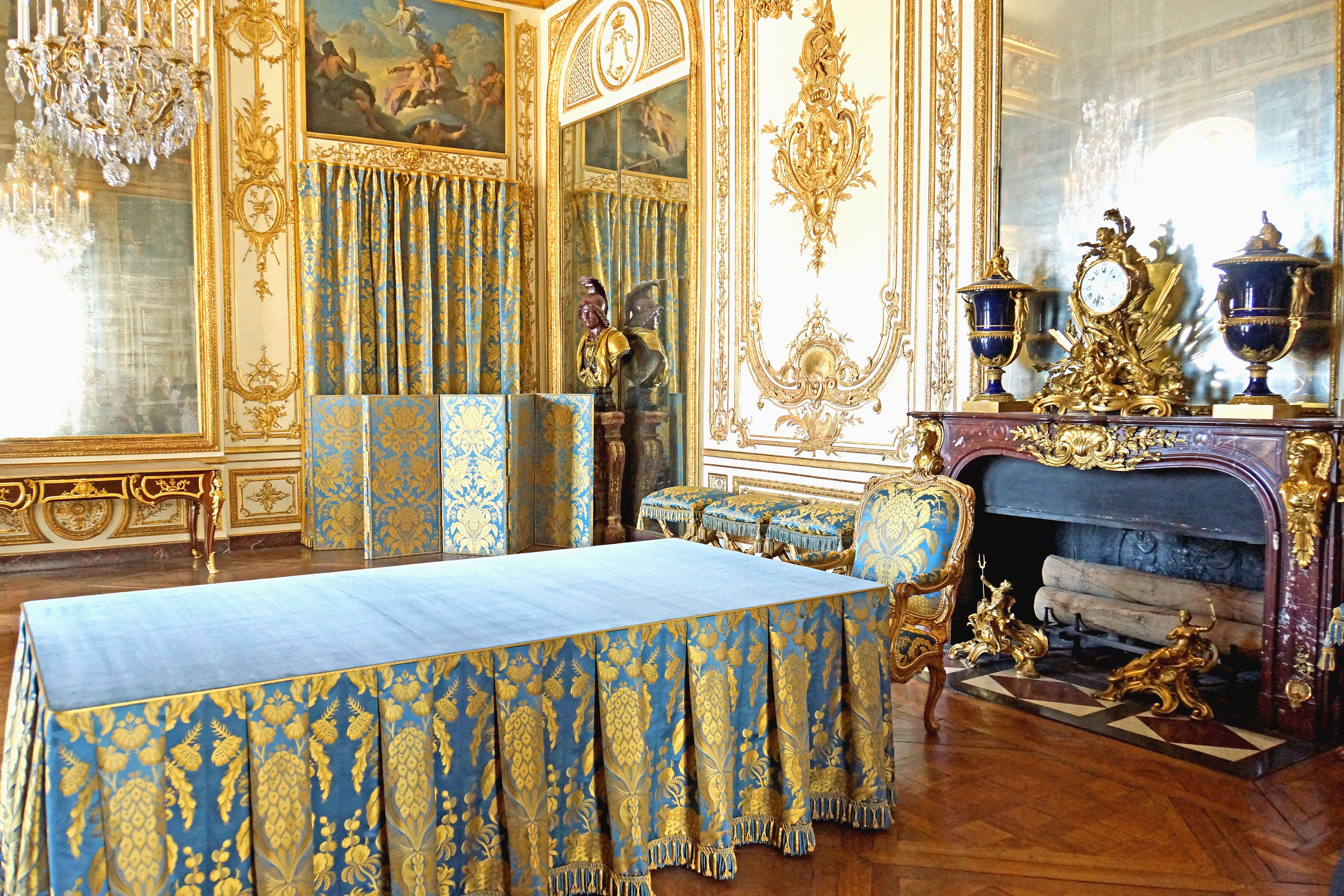 PLEASE, NO invitations or self promotions, THEY WILL BE DELETED. My photos are FREE to use, just give me credit and it would be nice if you let me know, thanks. Council Study was where the king presided over the various Councils with his ministers as well as granting audiences and receiving oaths of loyalty. On the mantelpiece, a clock to the glory of Louis XIV, made for Louis XV in 1754. Two vases know as Mars and Minerva, made for this room in 1787.